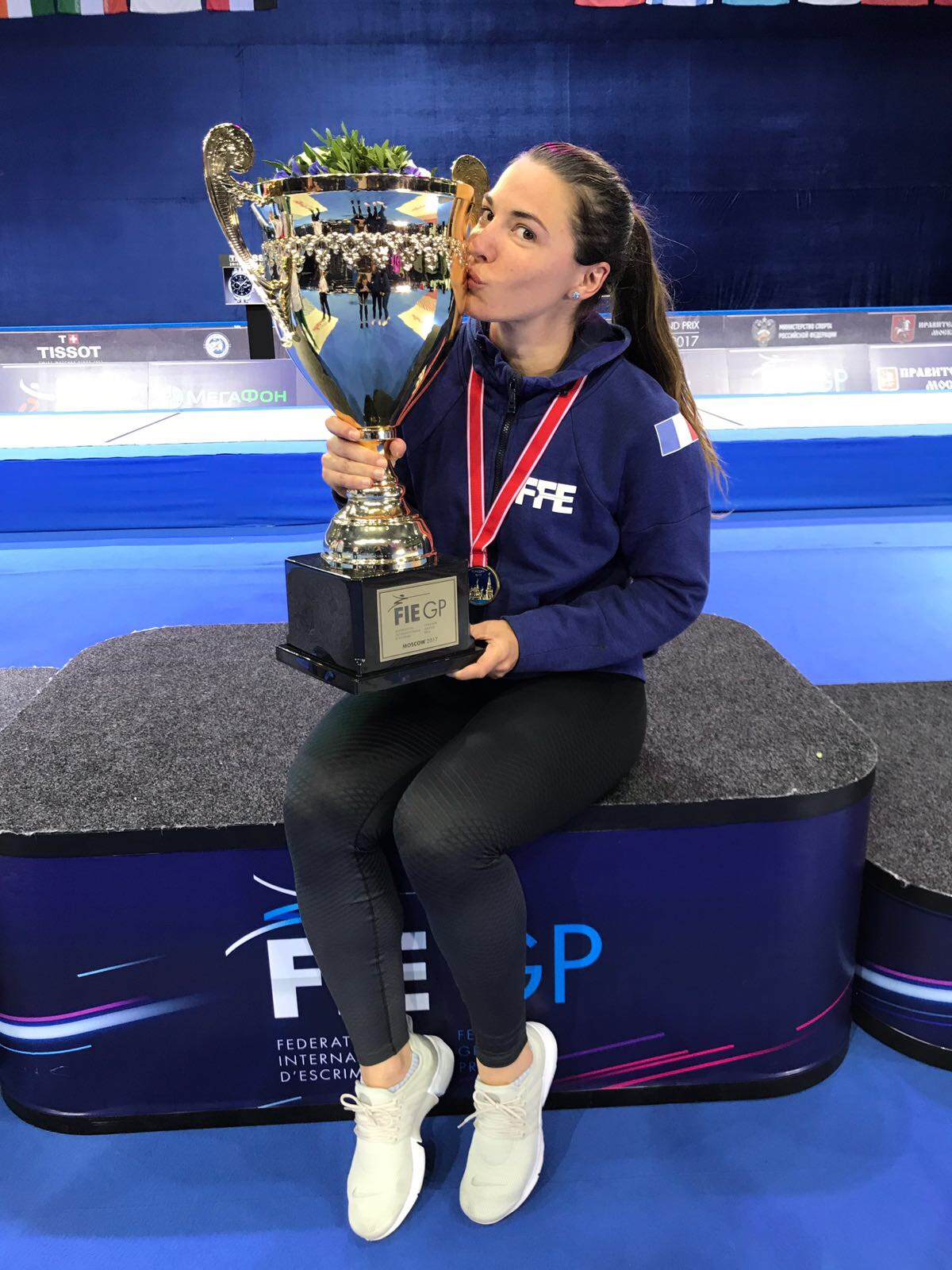 The french fencer Charlotte Lembach during her victory at the 2017 Moscou Grand Prix